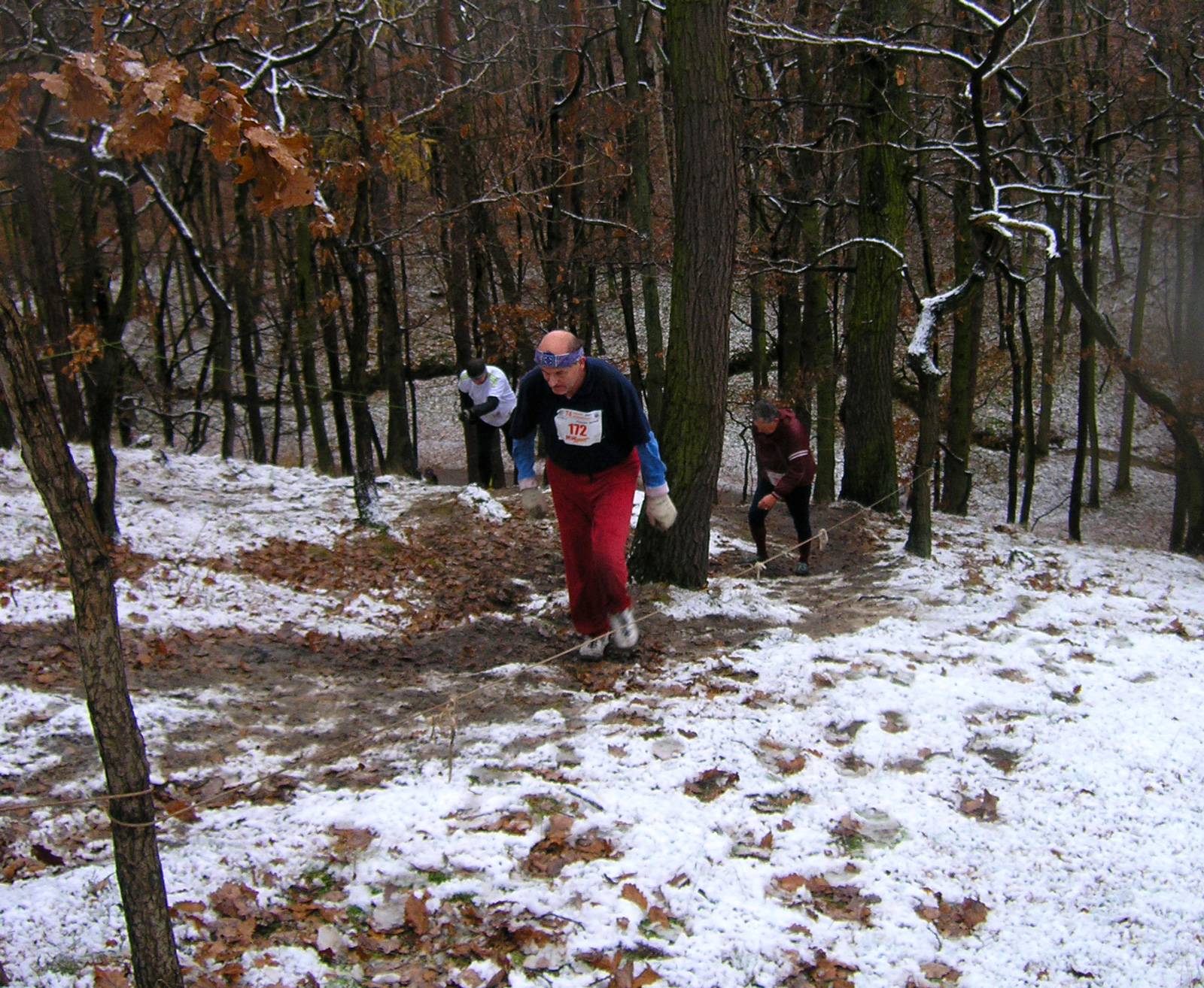 Velká kunratická - cross country running in Prague, Czech Republic: Vlastislav Bartoněk - veteran